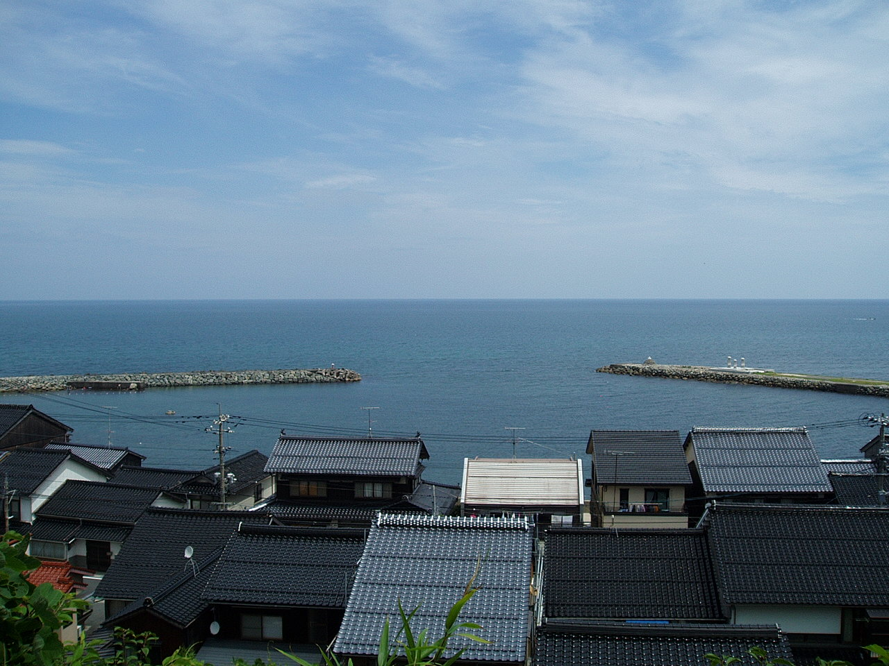 Kiku Port (older port of Akasaki) viewed from the south, located in Akasaki (today's Kotoura), Tottori, Japan.